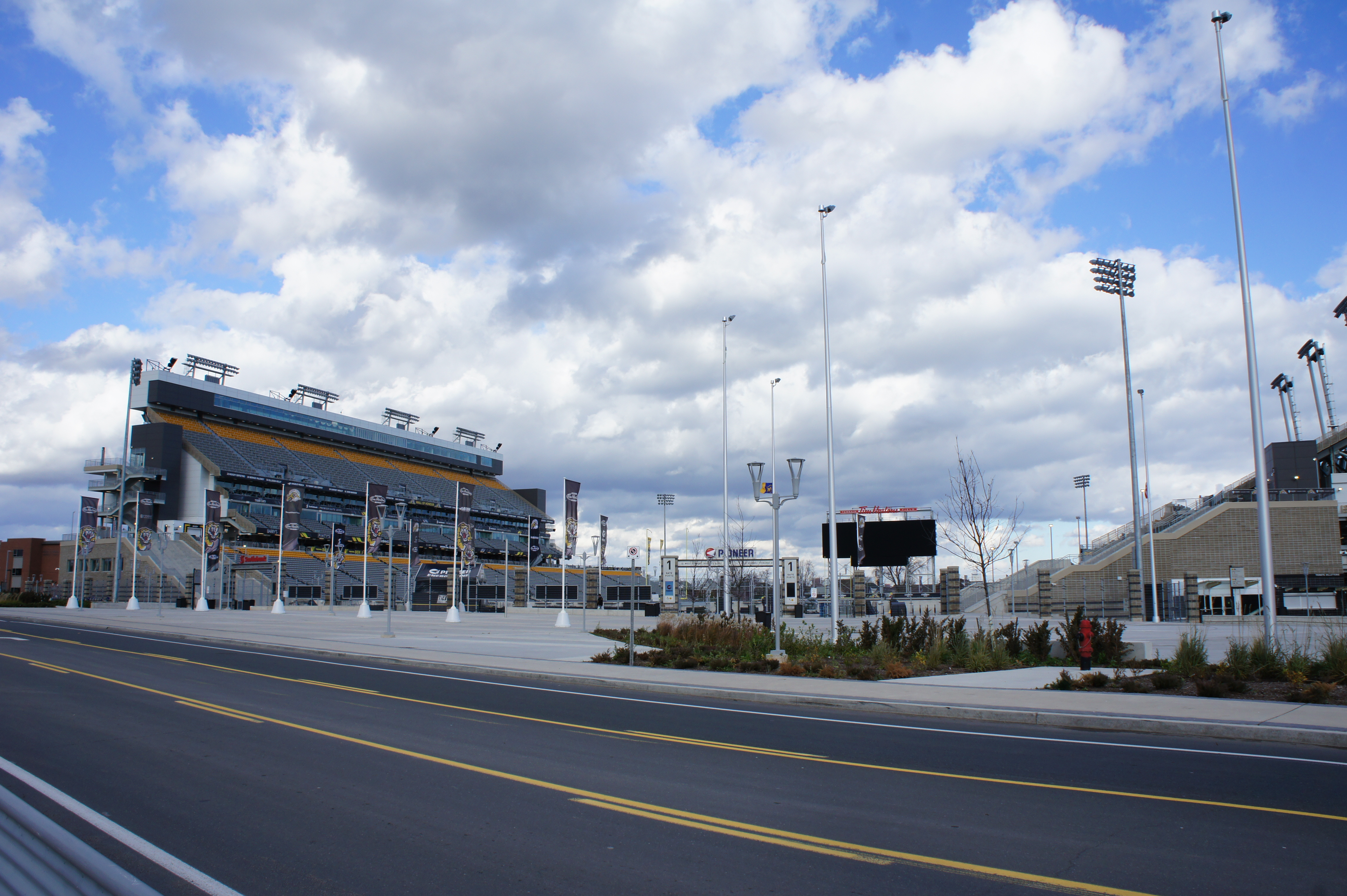 Tim Hortons Field Exterior